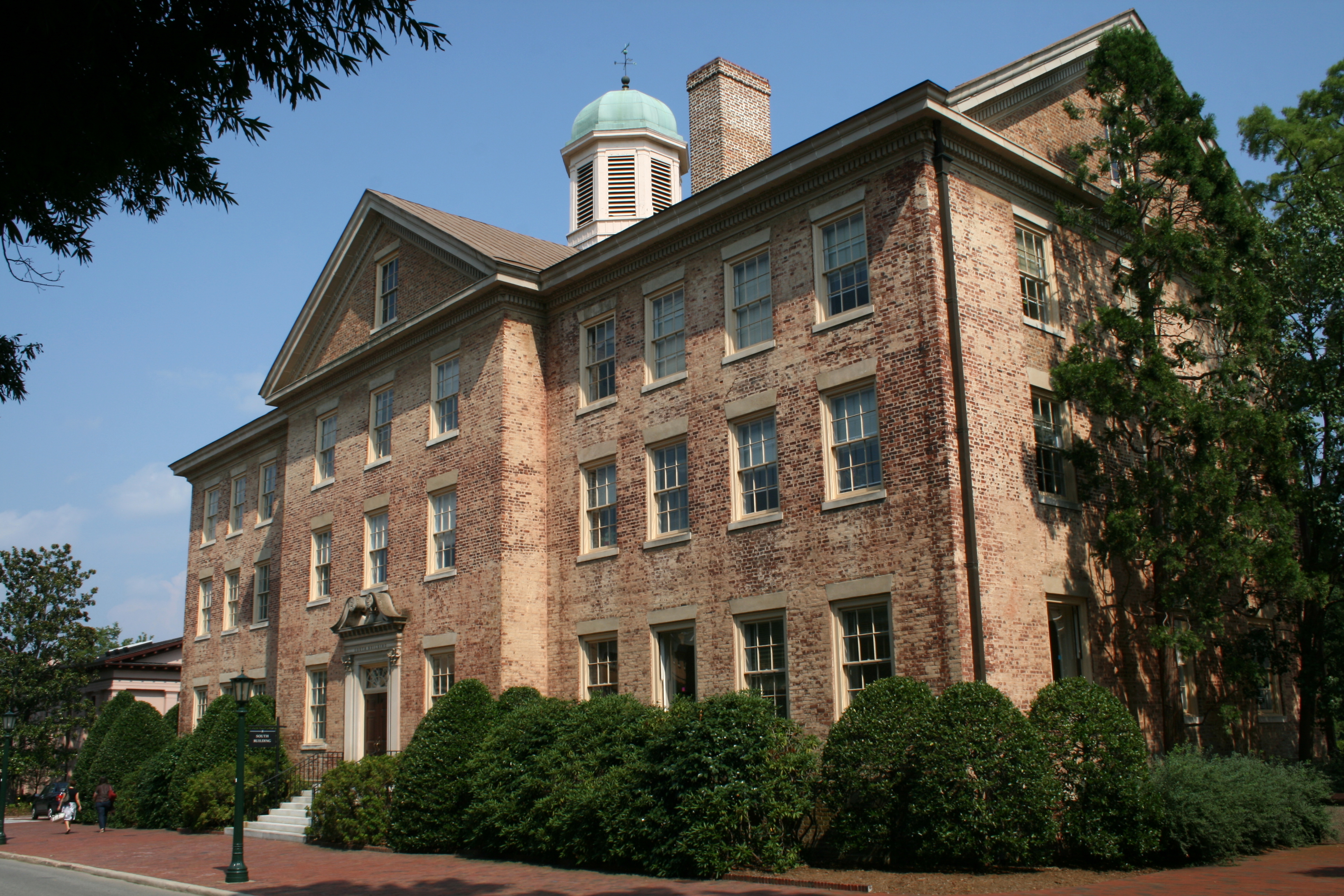 South Building at the University of North Carolina at Chapel Hill, seen from Cameron Ave.